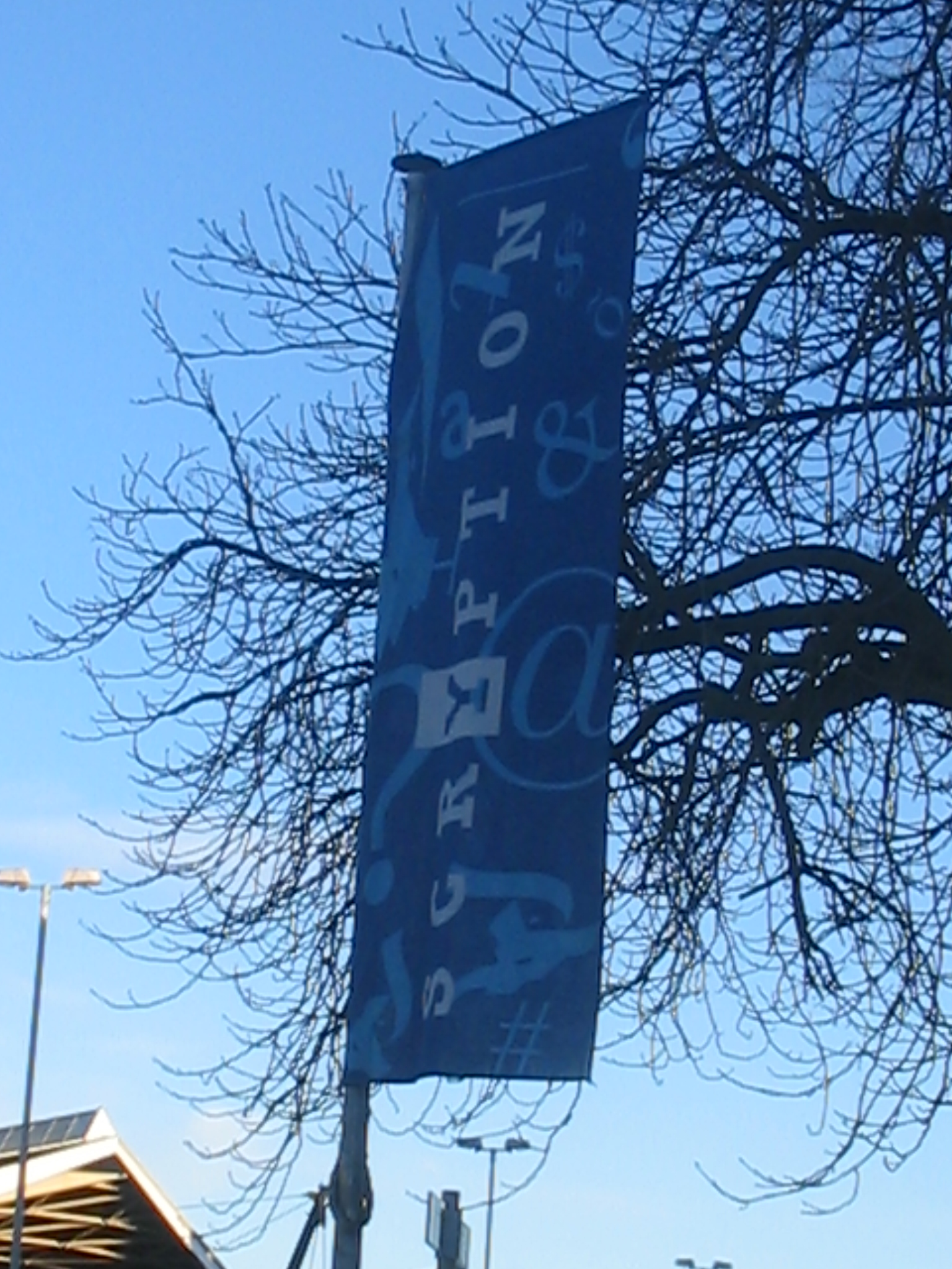 Tilburg, scryption